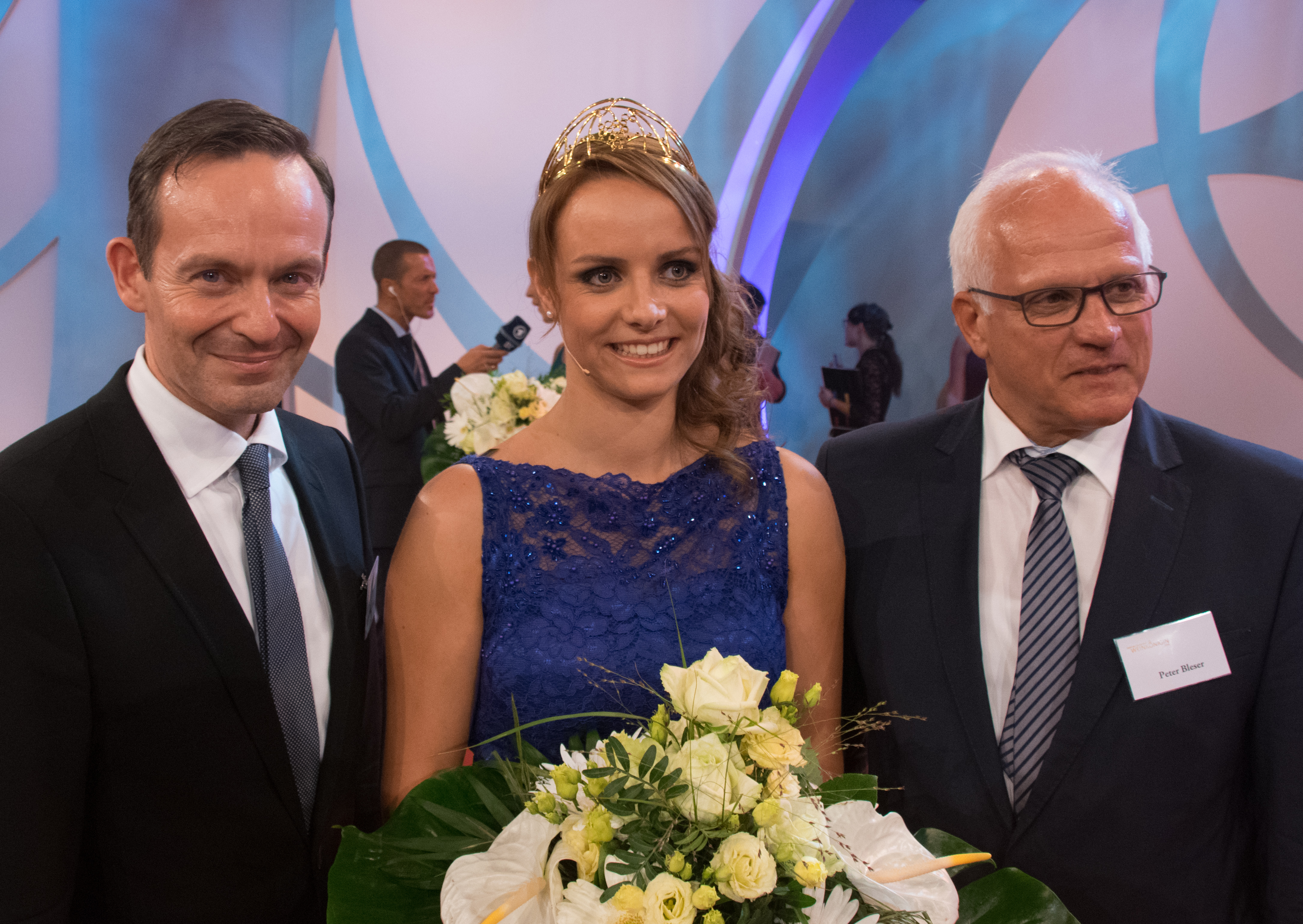 Volker Wissing (Wine Minister of Rhineland-Palatinate), Endesfelder, Peter Bleser (parliamentary state secretary in the Federal Ministry of Food and Agriculture (Germany))